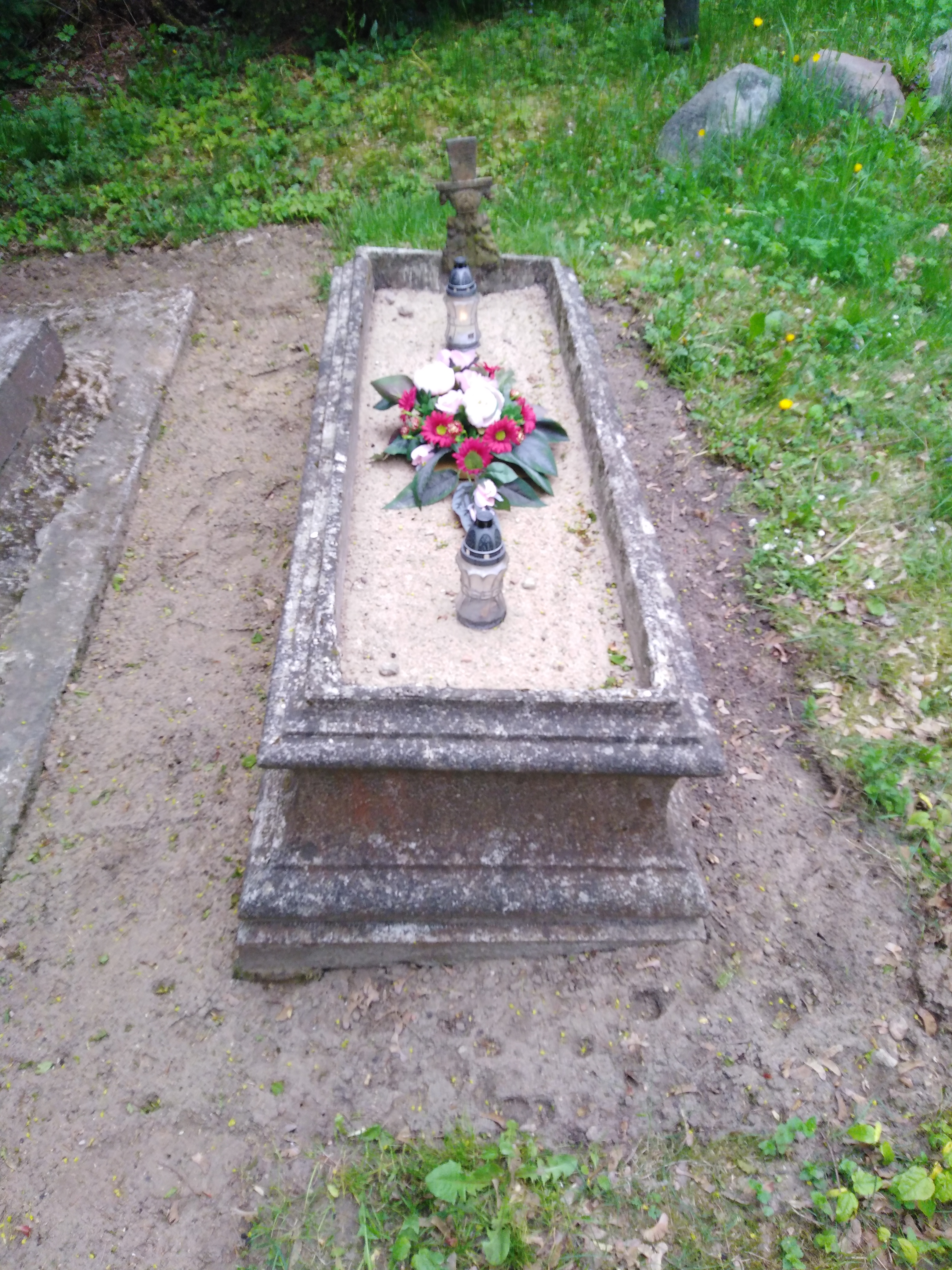 Zdjęcie nagrobku księdza Józefa Kręckiego na cmentarzu w Sypniewie